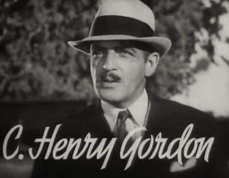 C. Henry Gordon in Pursuit - trailer (cropped screenshot)